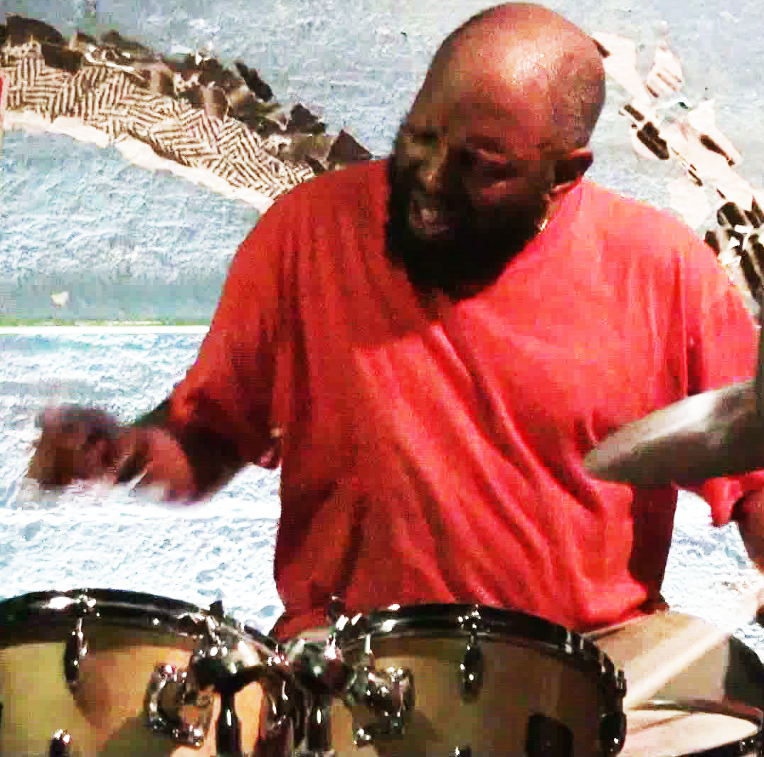 Marc Edwards playing with Weasel Walter at the Silent Barn in Queens, NY